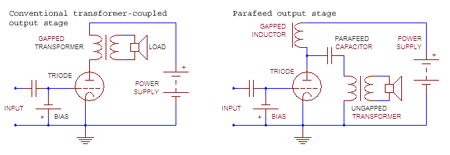 Tube output stage (a) traditional single-ended (b) parafeed